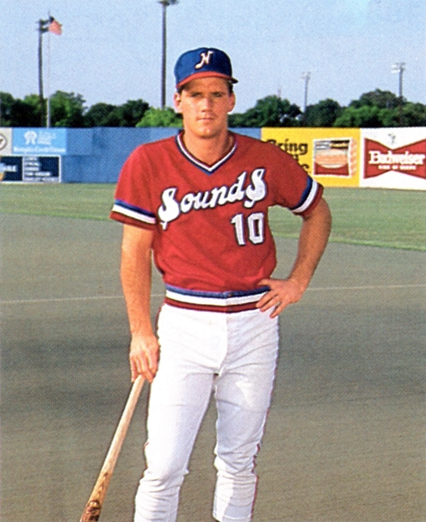 Second baseman Tom Barrett of the 1984 Nashville Sounds Minor League Baseball team of the Southern League